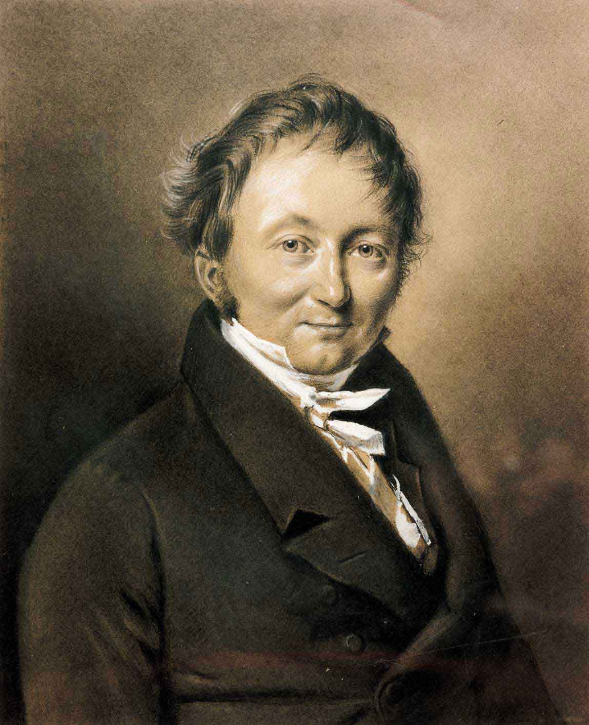 portrait of inventor Karl Drais